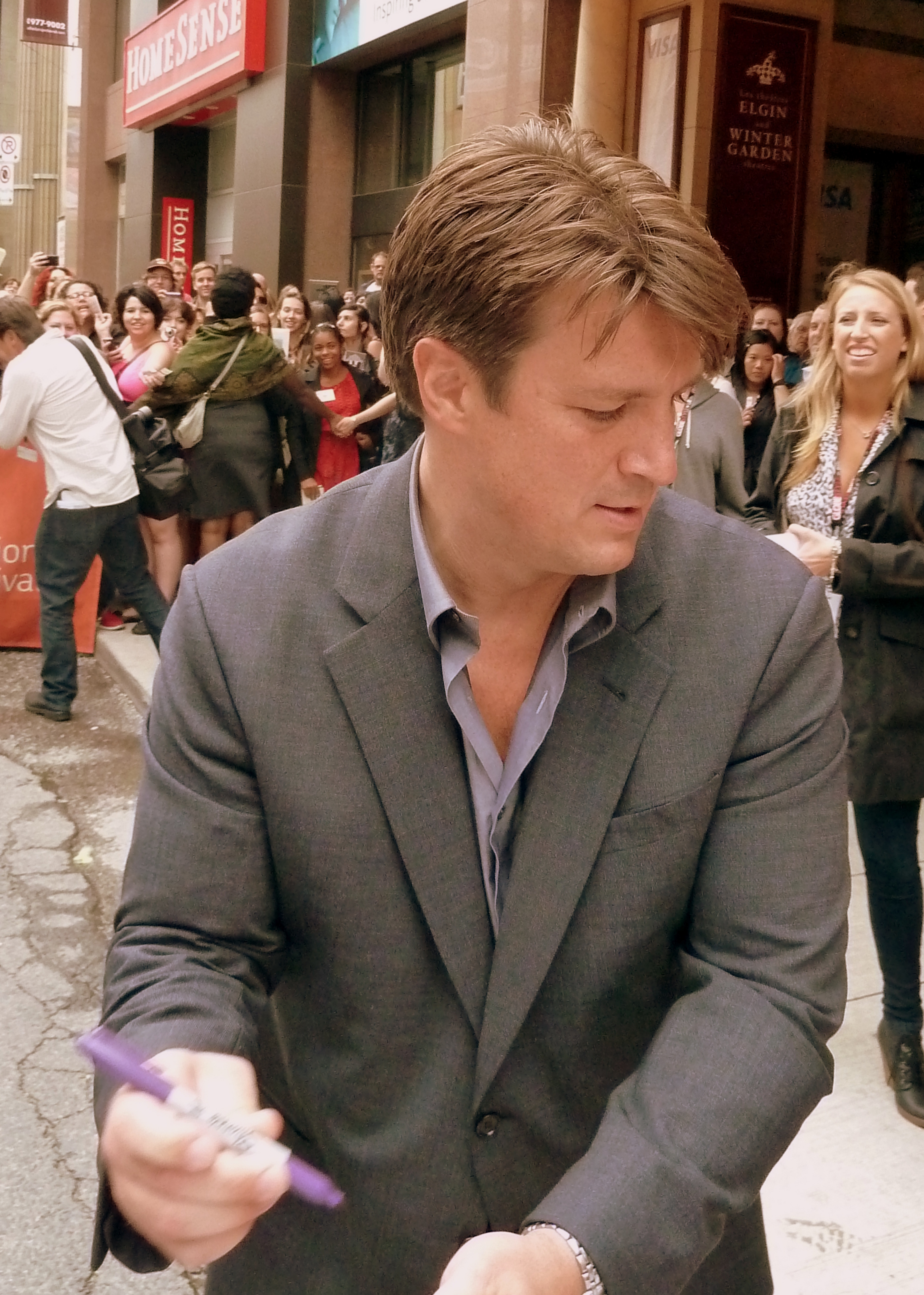 Nathan Fillion at the premiere of Much Ado About Nothing, Toronto Film Festival 2012